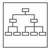 Graphic for Seven Management and Planning Tools.